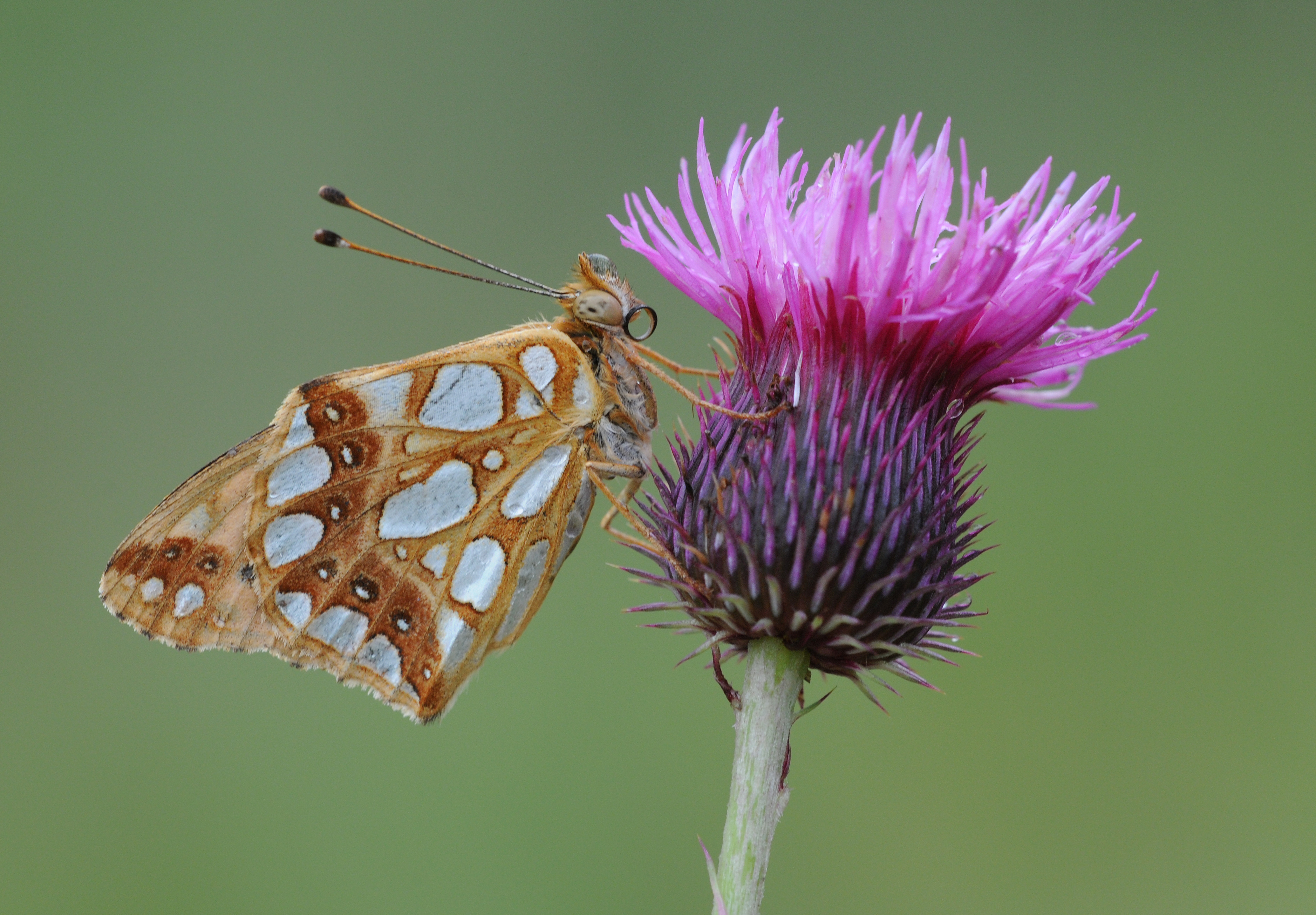 Wing underside view of a Queen of Spain Fritillary (Issoria lathonia). Dereköy, Kırklareli - Turkey.